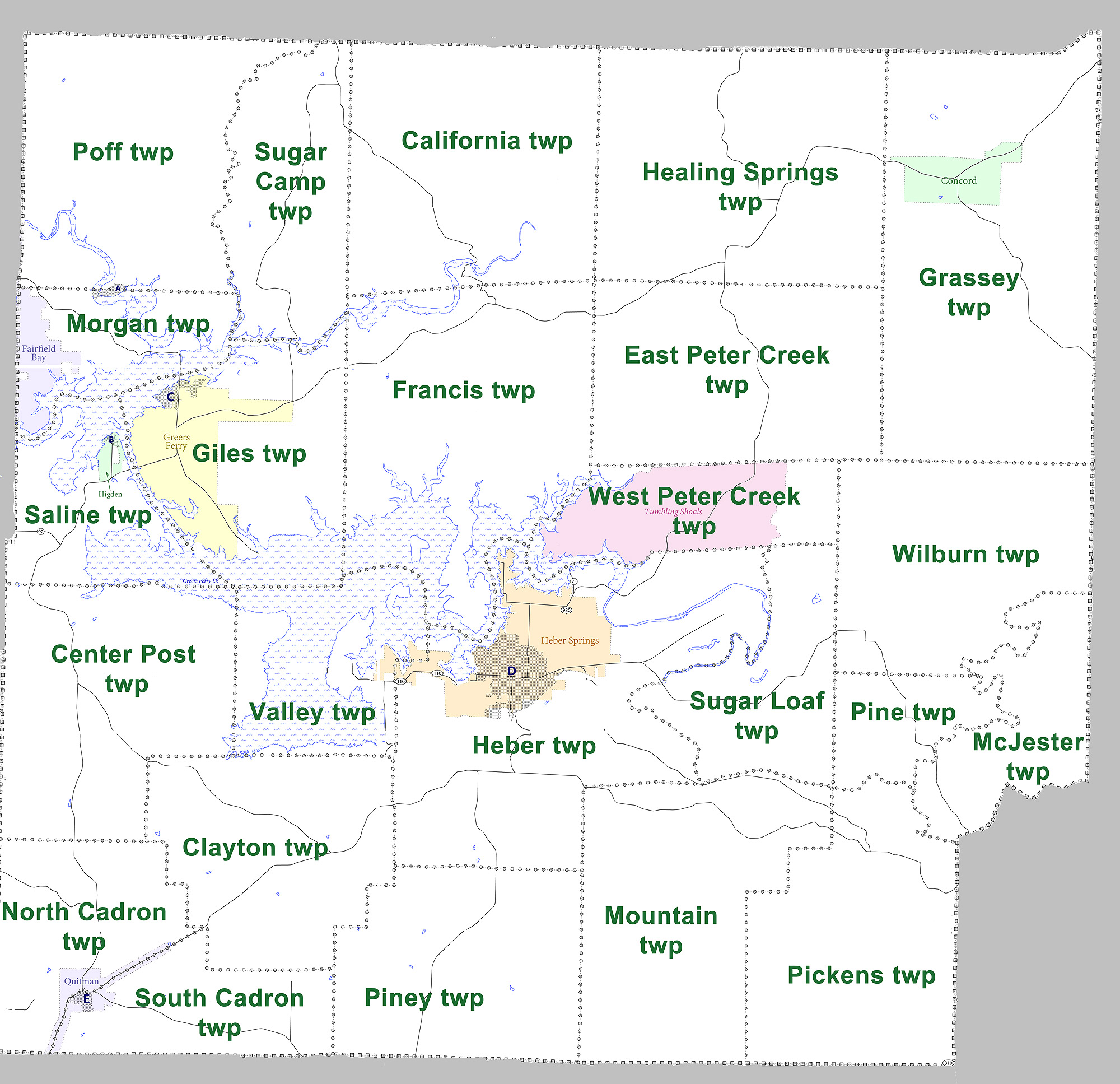 Large map showing townships in Cleburne County, Arkansas. Modified from US census map (for 2010 census) for Cleburne County, Arkansas